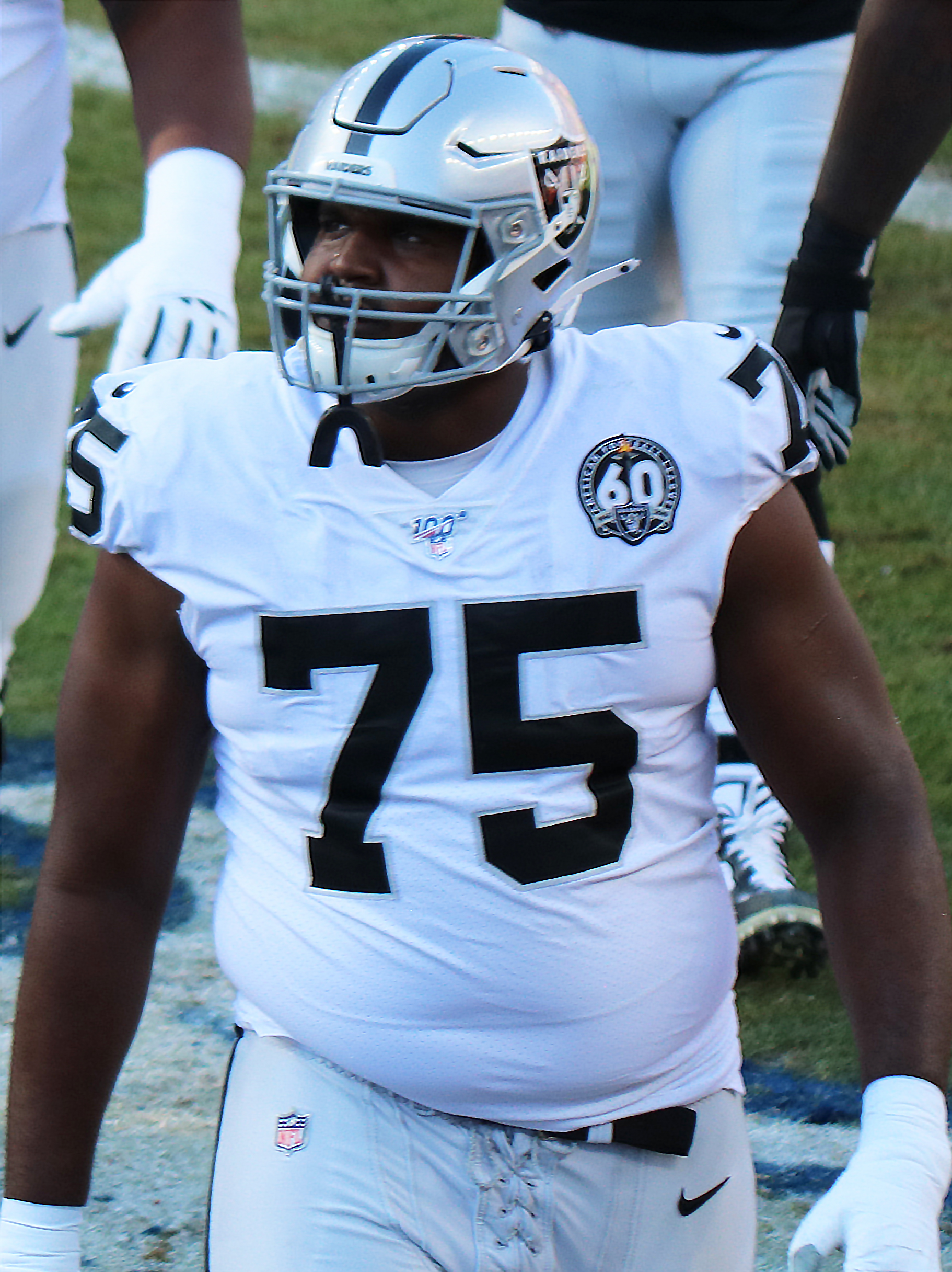 Brandon Parker, a National Football League player.